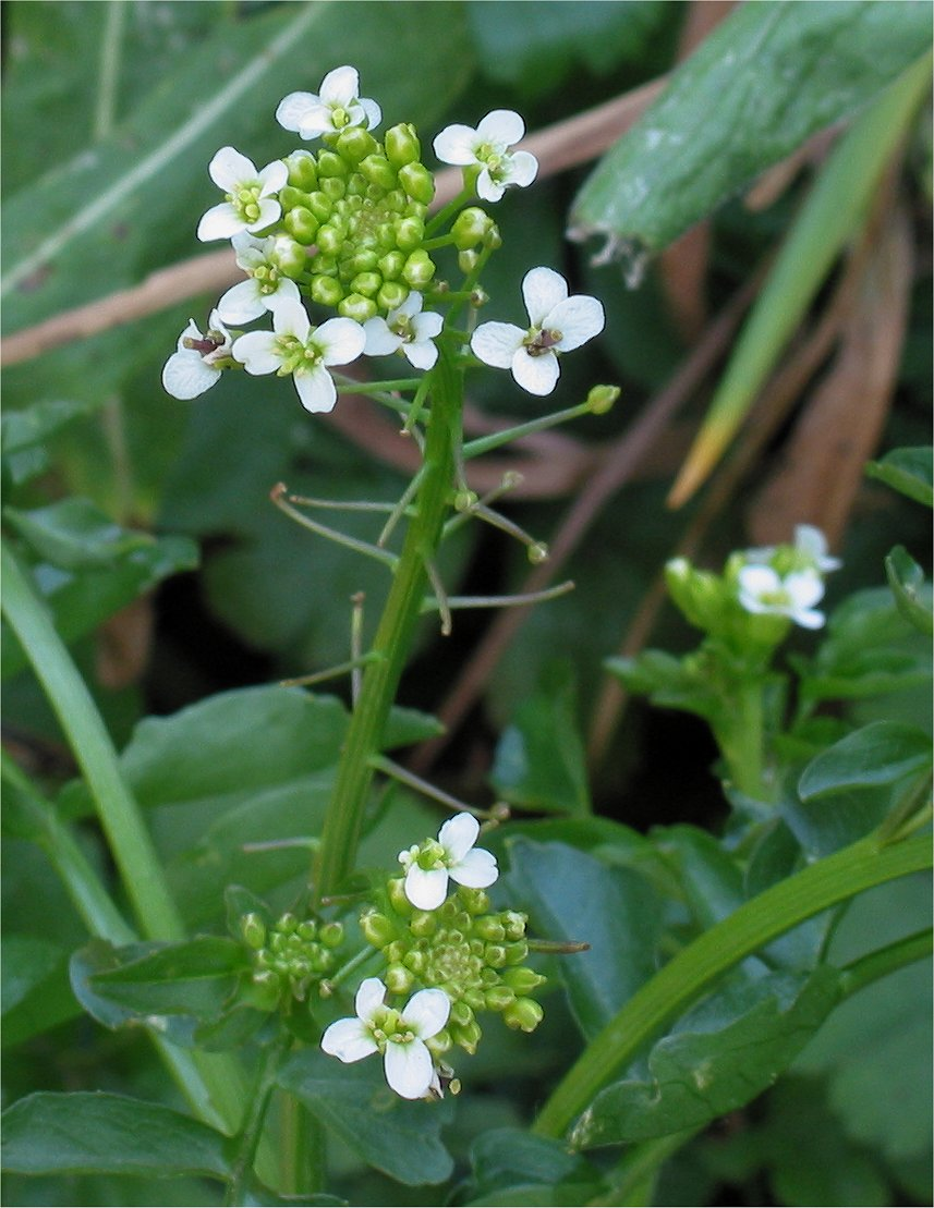 Rorippa microphylla inflorescens